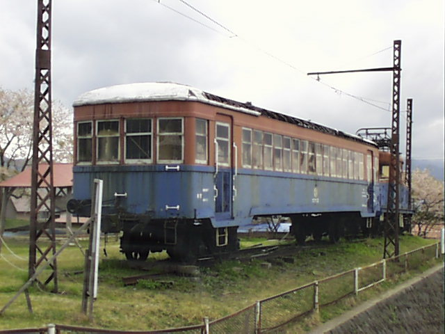 Electric locomotive and Passenger car : Akita Chuo Kotsu